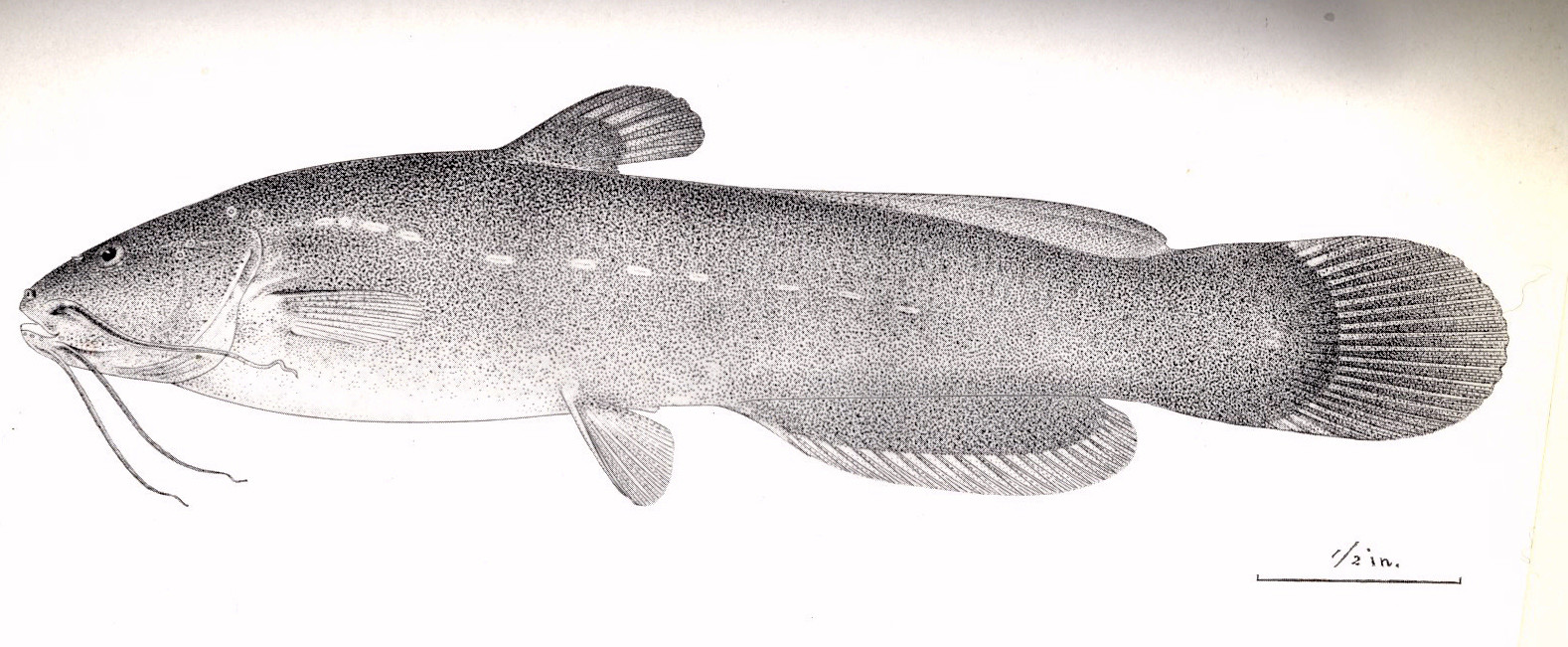 Rhamdiopsis moreirai Haseman Subject: Catfishes Tag: Fish